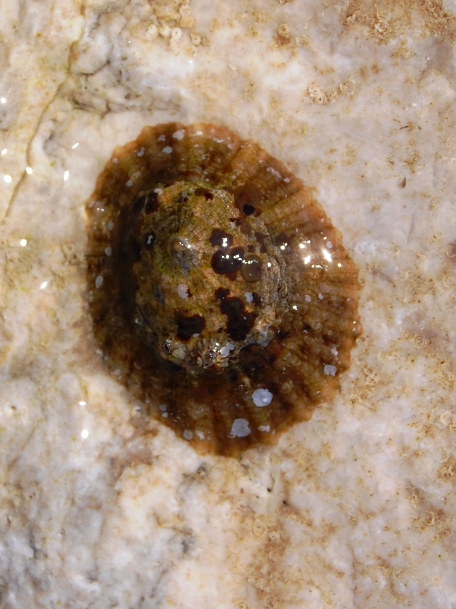 Patella caerulea Mediterranean sea